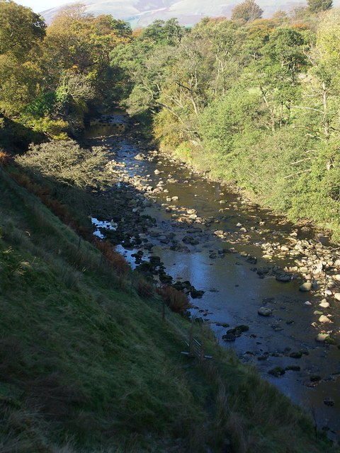 The Dent Fault The Dent Fault runs from left to right across the middle of this picture. It is a major fracture in the earth's crust and formed about 290 million years ago. Adam Sedgwick, a pioneering geologist, was the first to discover this important fault.